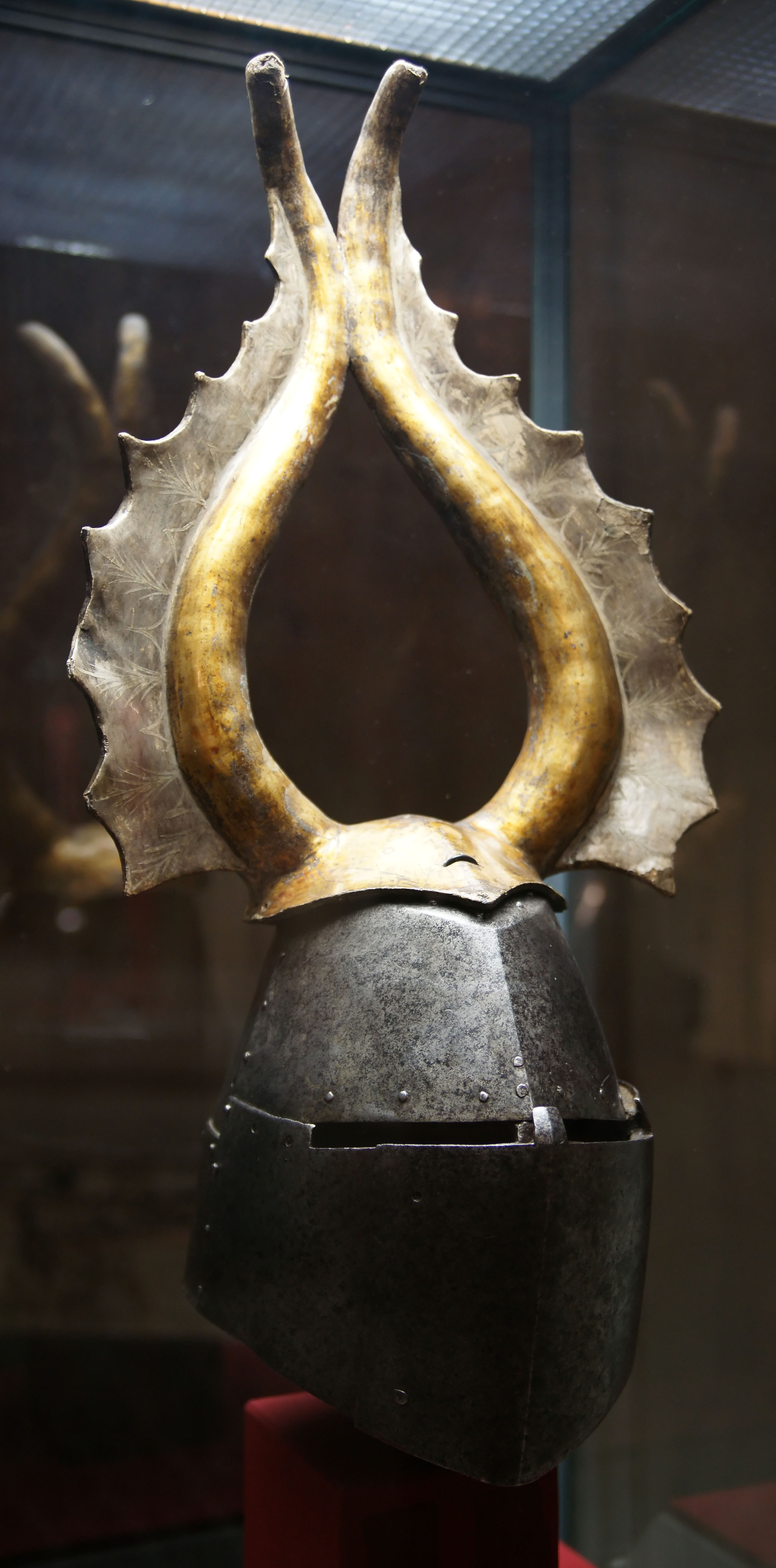 Great helm with decoration (cimier) of Albert von Prankh, Austria, 14th century.